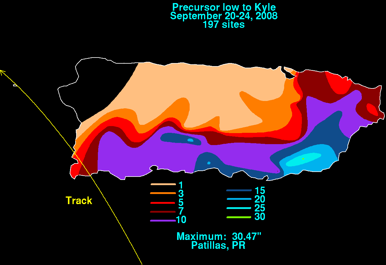 Storm total rainfall map of Hurricane Kyle during September 2008.